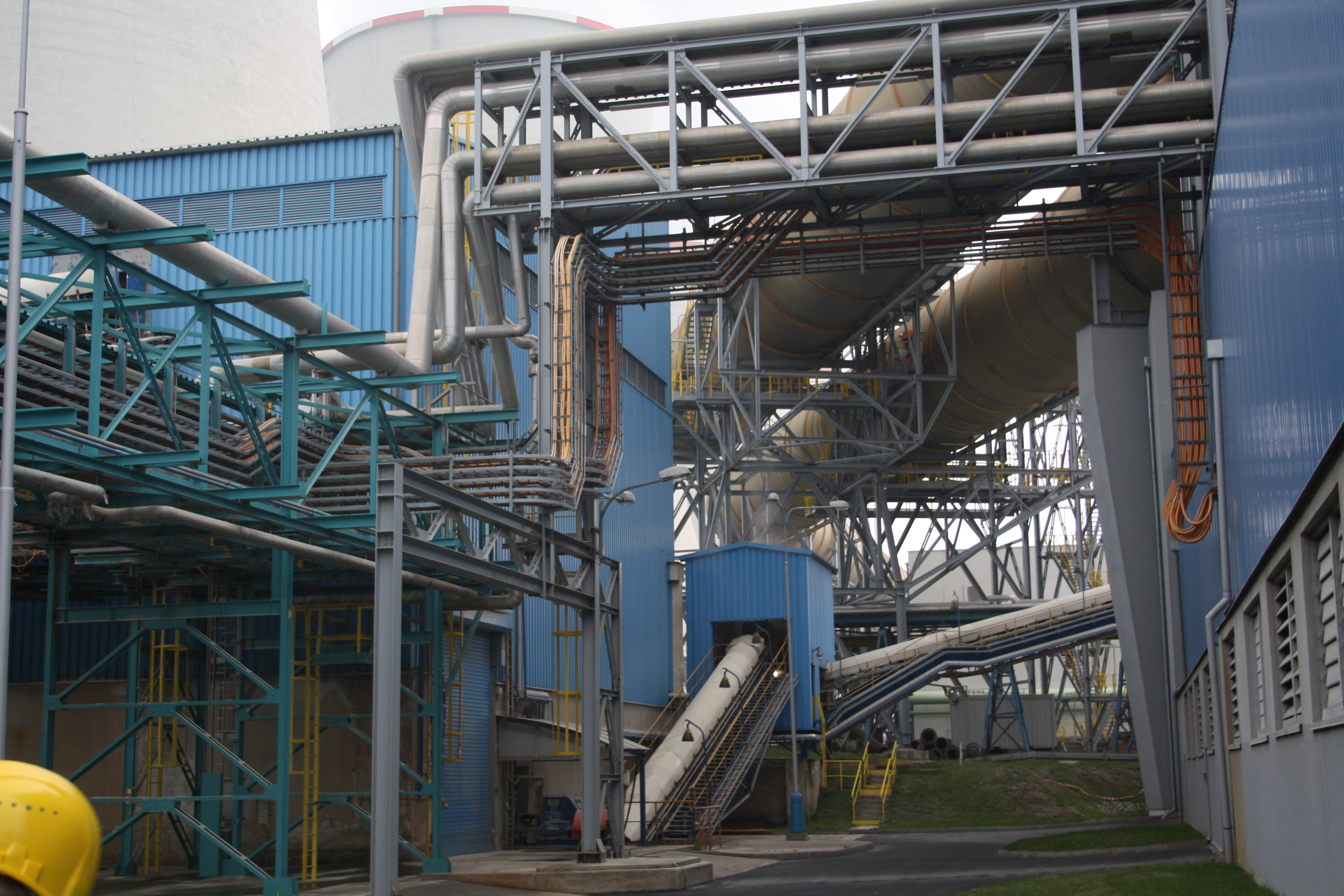 Supporting structure for cables in power station